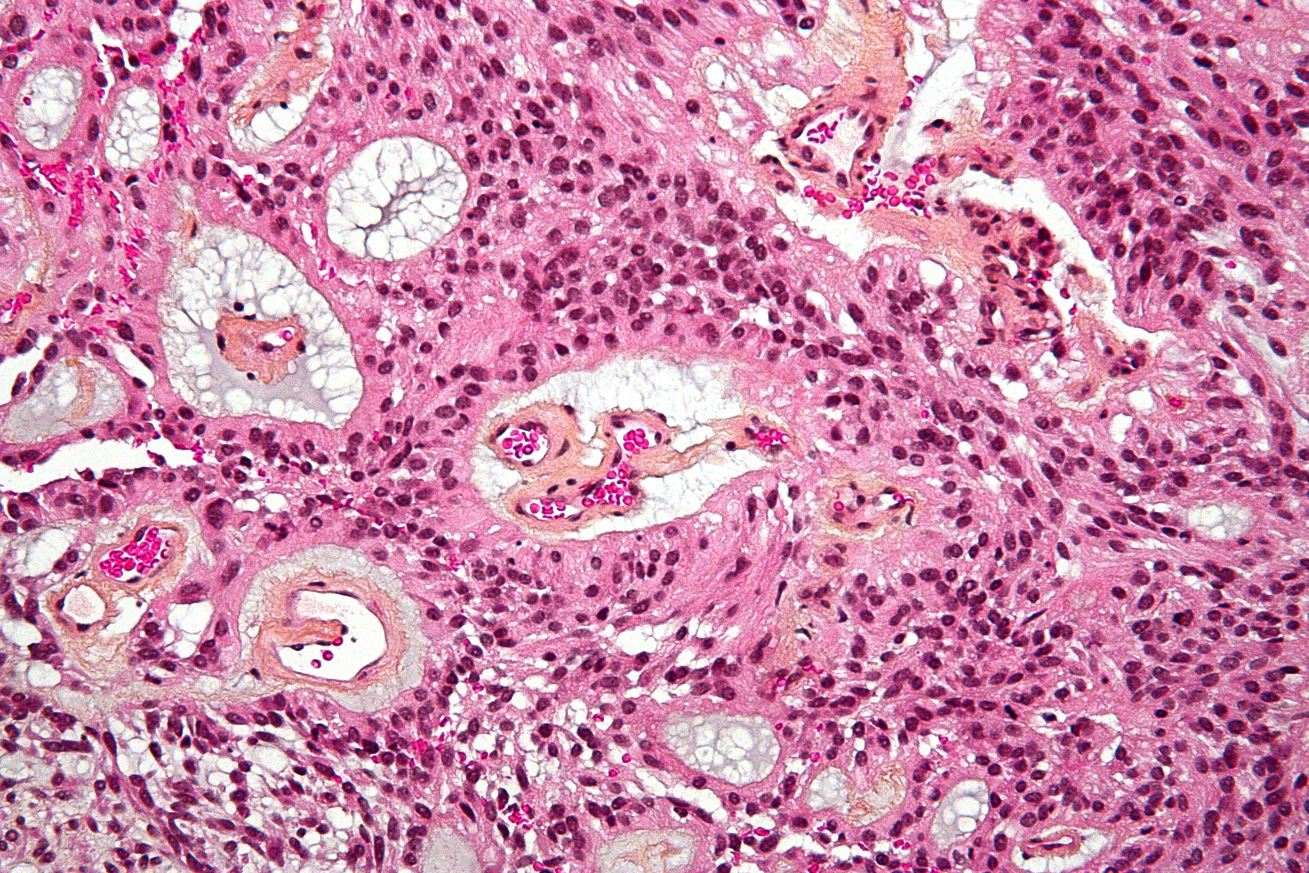 High magnification micrograph of a myxopapillary ependymoma. HPS stain.